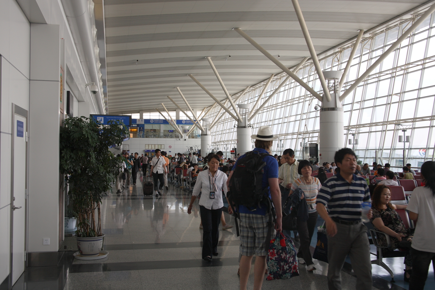 Lhasa Gonggar Airport, Tibet